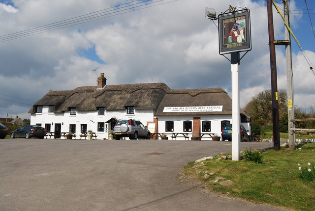 Sailors return, East Chaldon An excellent rural inn serving fine real ale & excellent food.